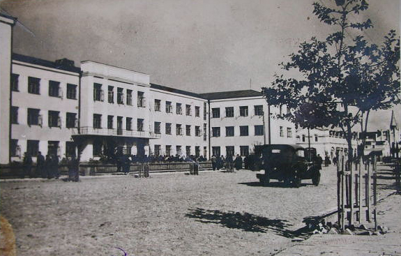 The building of the Faculty of Physical Education CNU in Cherkasy, 1930.